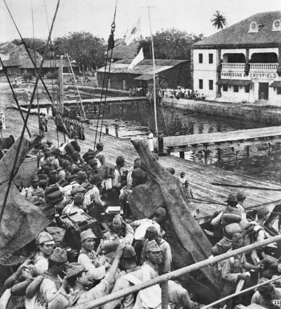 LABUAN, BORNEO. 1942-01-14. JAPANESE TROOPS LAND OFF THE WEST COAST OF BRITISH NORTH BORNEO.